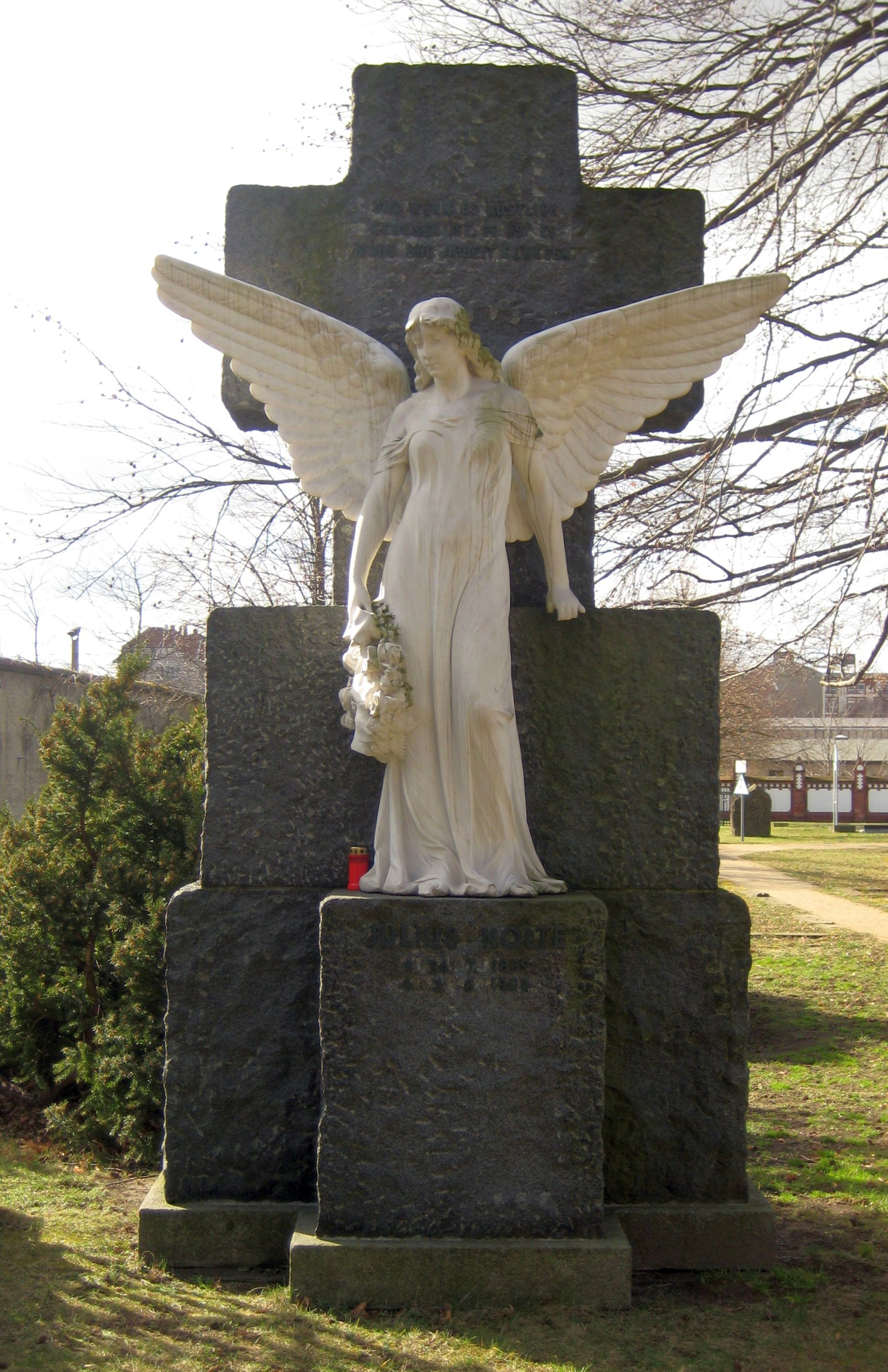 Grave of Heinrich Eduard Julius Ludwig Nolte with marble angel (1908) on Invalidenfriedhof cemetery in Berlin